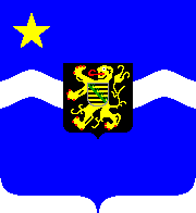 Coat-of-Arms of the Congo Free State and of the Belgian Congo. Escutcheon: Azure, a fess wavy Argent, in the canton a star five pointed Or; an inescutcheon of Sable, a lion rampant Or (Belgium), bearing on its breast an inescutcheon of barry Sable and Or, a crancelin Vert (Saxony, for the reigning House of Saxe-Coburg and Gotha). Supporters (not shown here): two lions rampant reguardant Or. Motto (not shown here): Travail et Progrès Drawn by Miles Li, latest version 26 December, 2009.